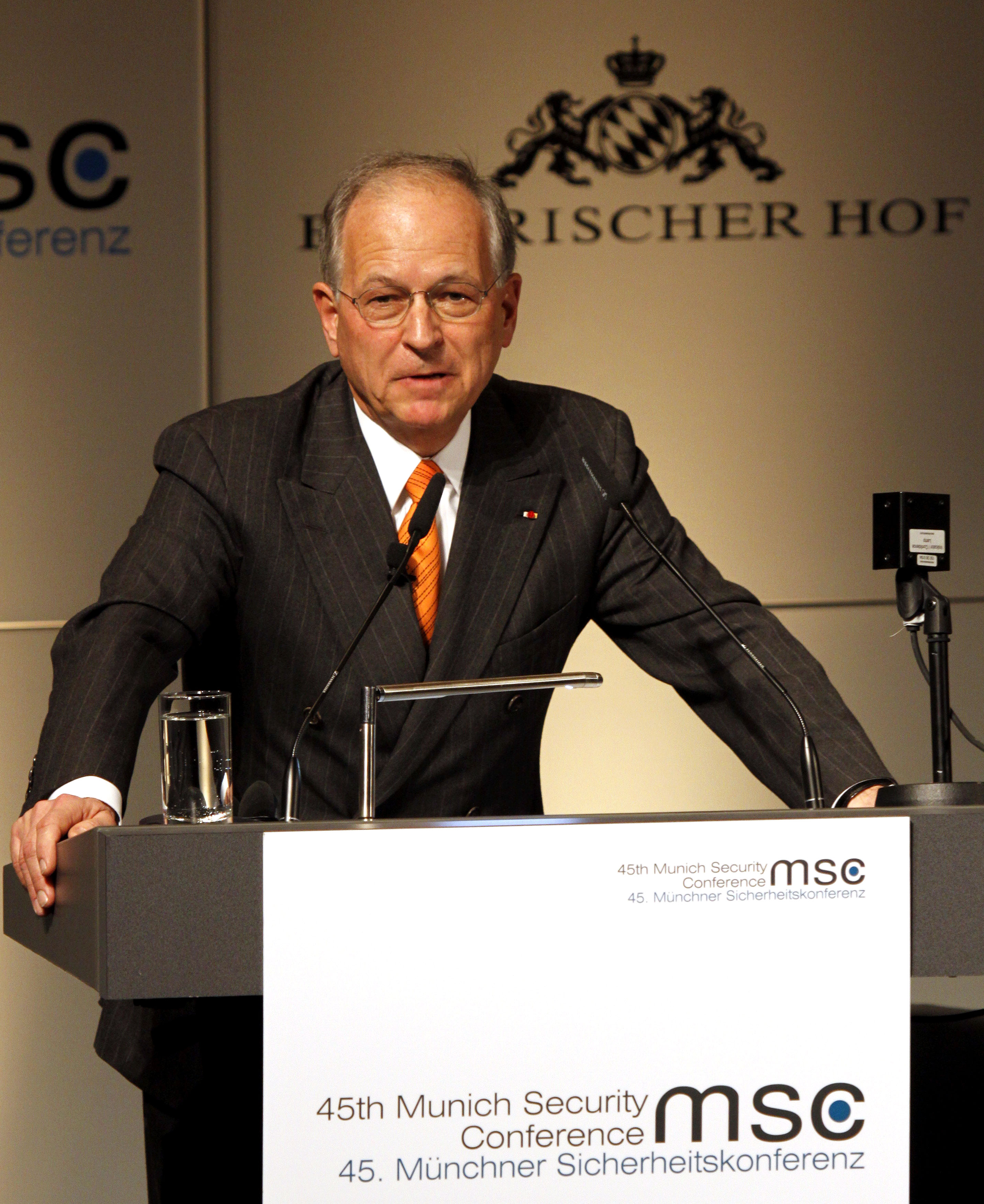 45th Munich Security Conference 2009: The leader of the Munich conference, Ambassador Wolfgang Ischinger, during his inaugural speech.